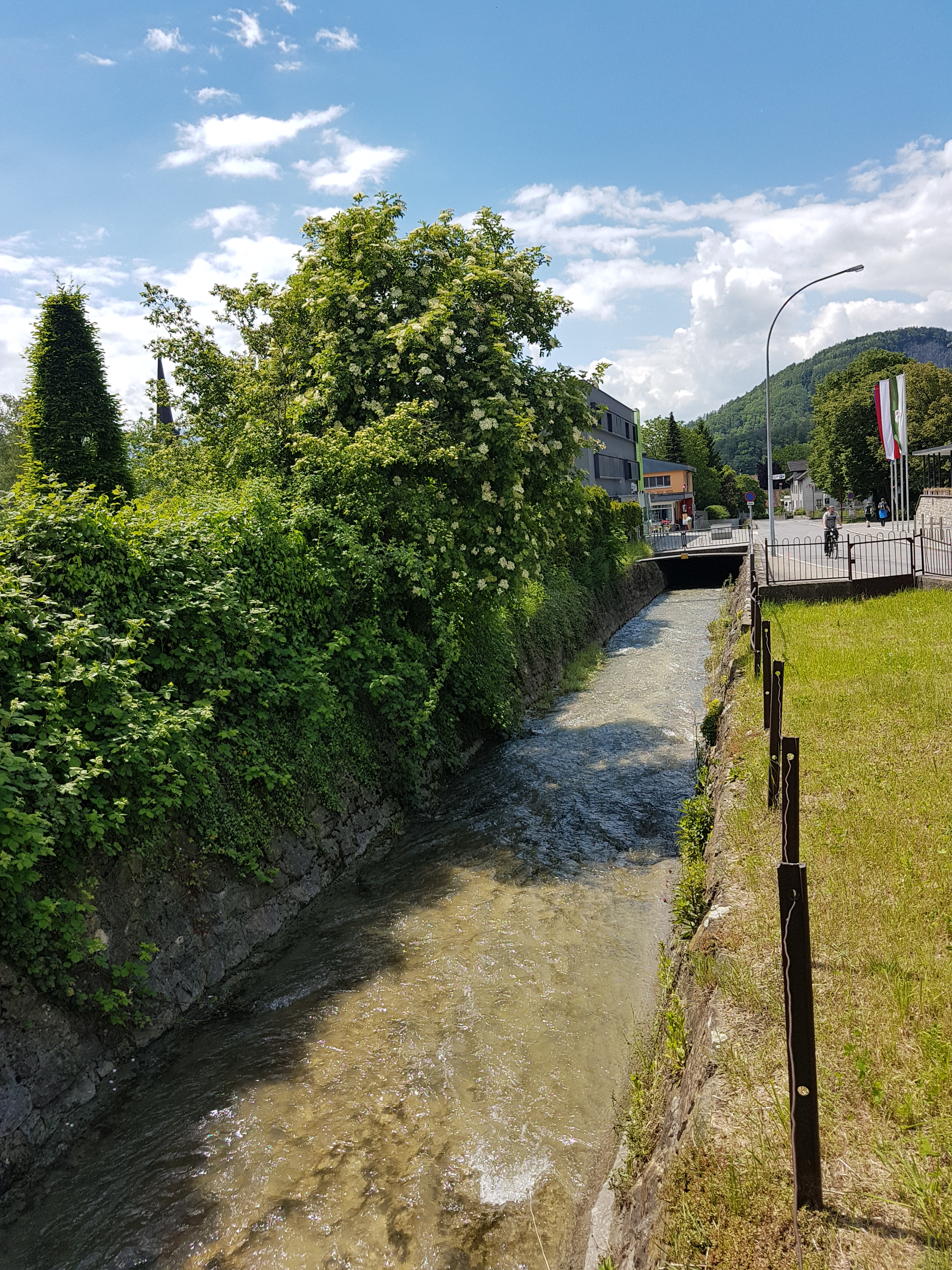 Emmebach (rivulet) in Götzis, Vorarlberg, Austria.